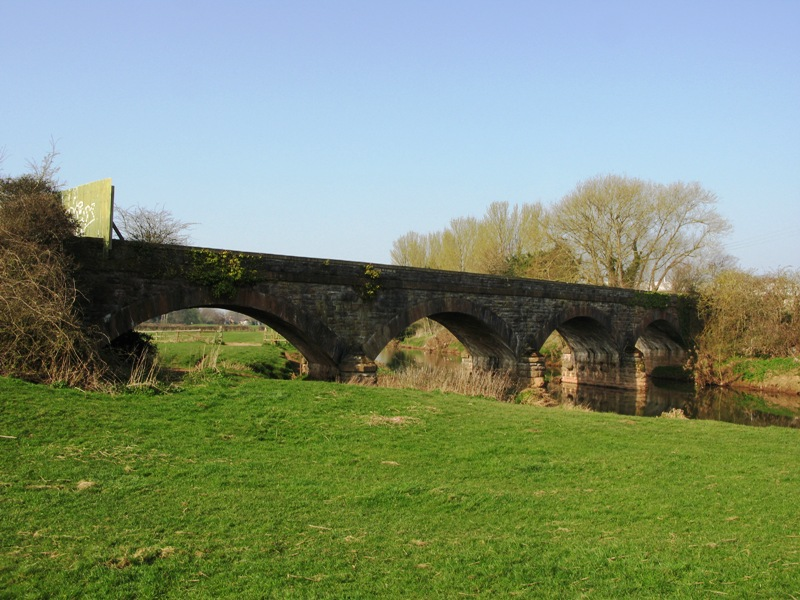 The former railway bridge that carried the Taunton to Chard railway over the River Tone at Creech St Michael, Somerset, England.